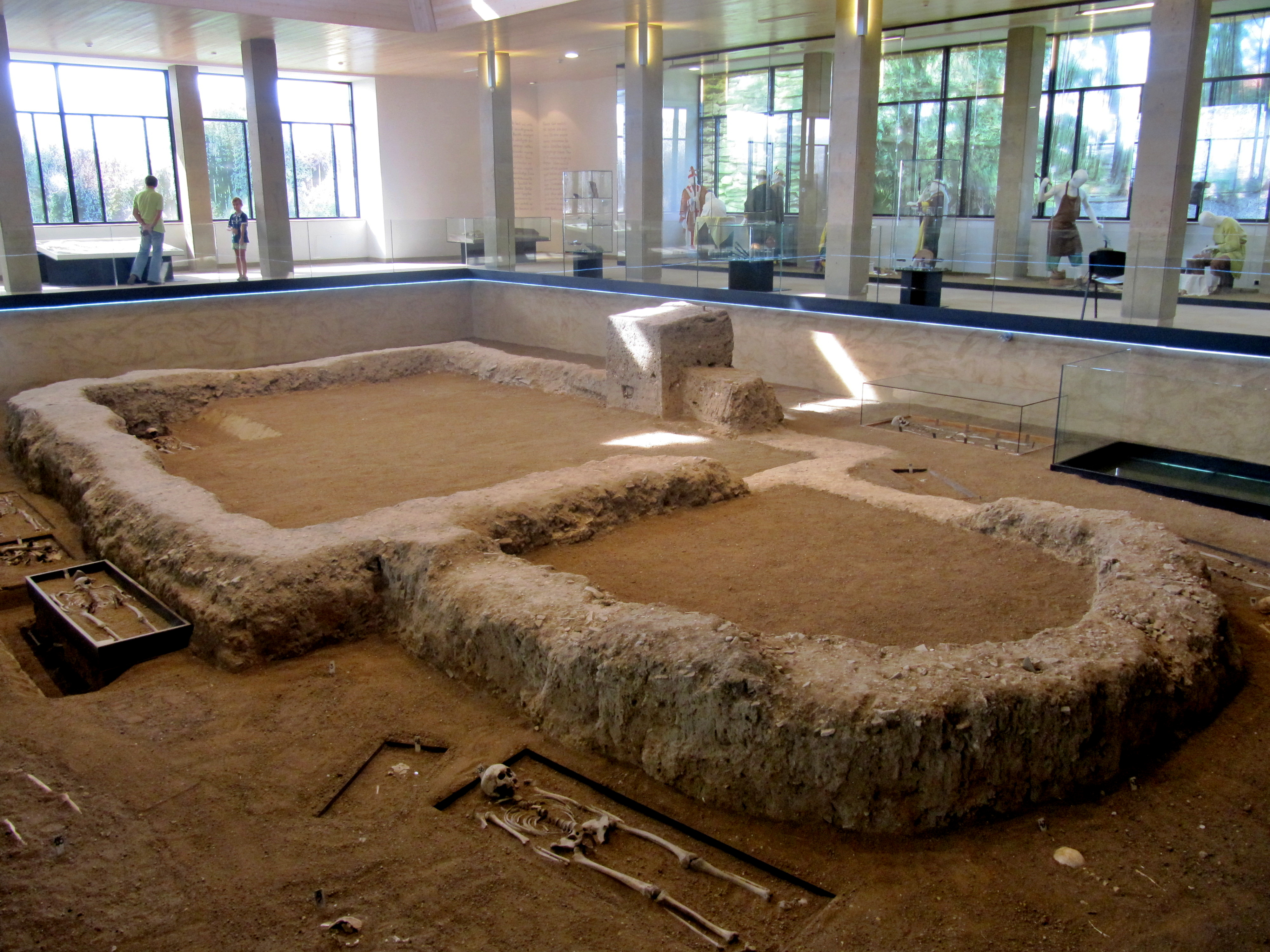 Staré Město in Uherské Hradiště District, Czech Republic. Památník Velké Moravy (Memorial of Great Moravia).